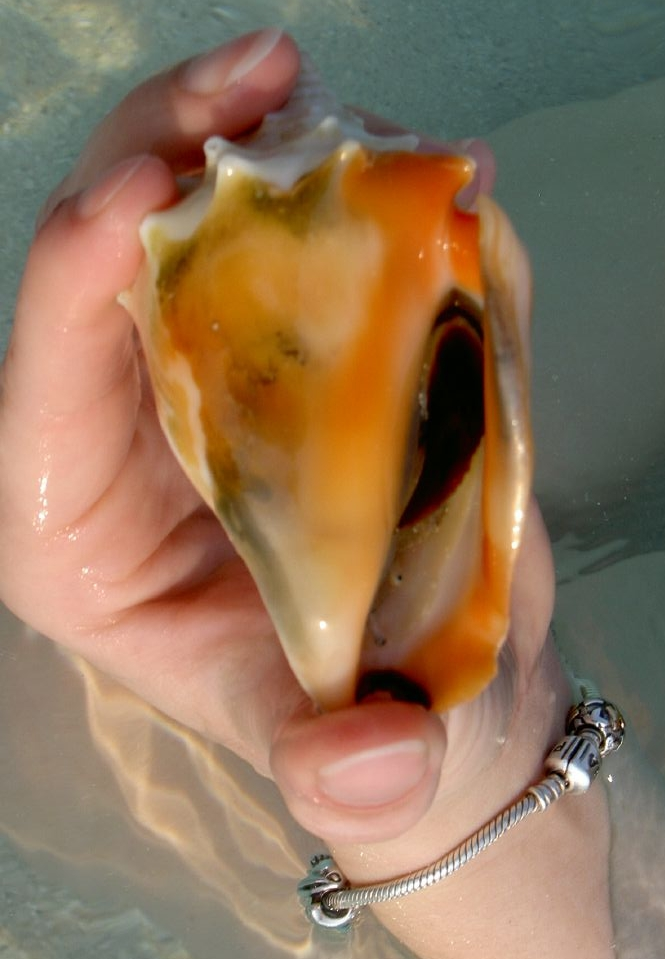 Apertural view of Strombus pugilis out of water in a human hand shows its brown operculum and its two eyes on tentacles.